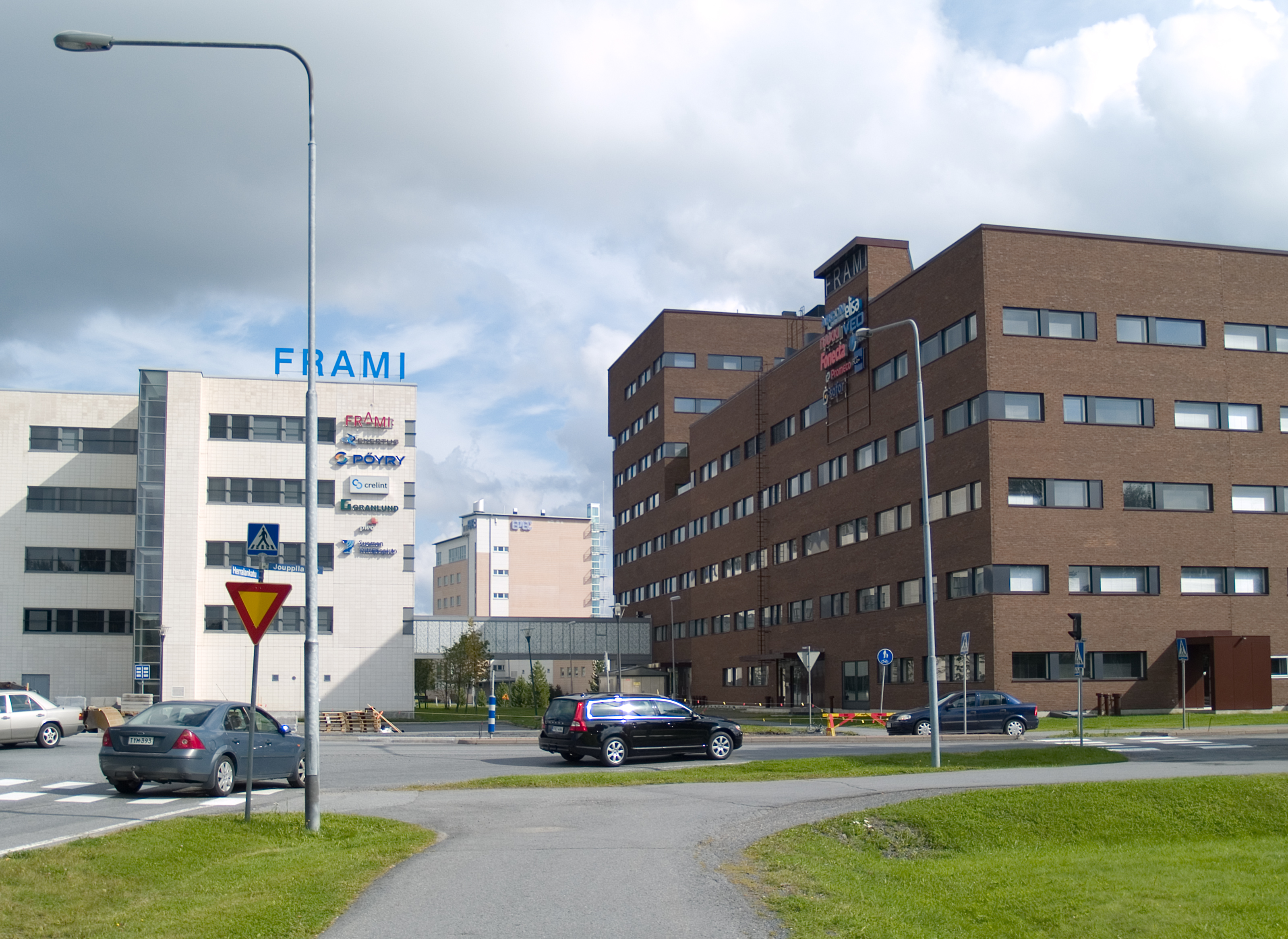 C & D buildings in Frami area, Seinäjoki, housing corporate offices and educational facilities.